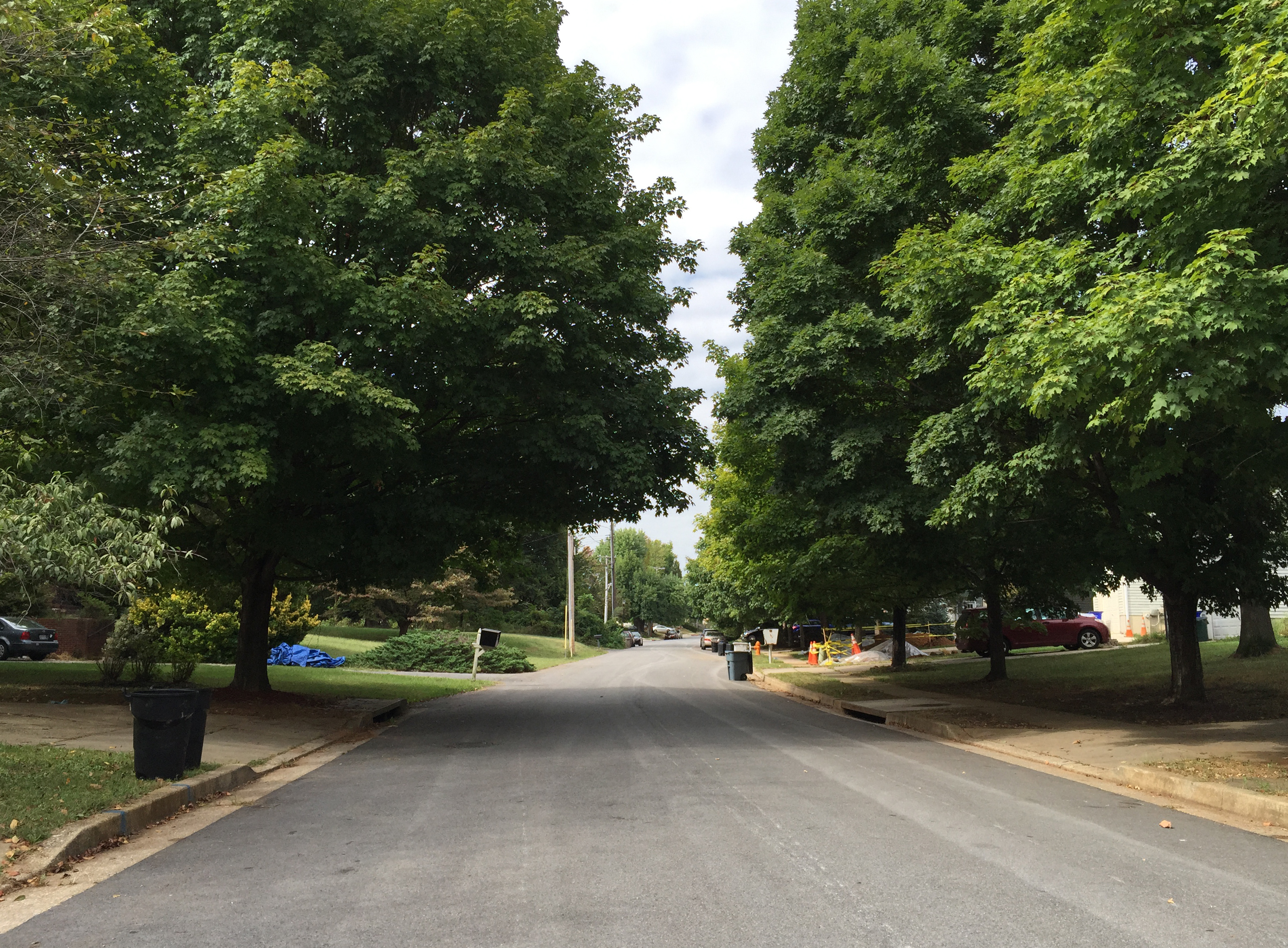 View northwest at the southeast end of Maryland State Route 432 (Glen Oaks Lane) in Columbia, Howard County, Maryland